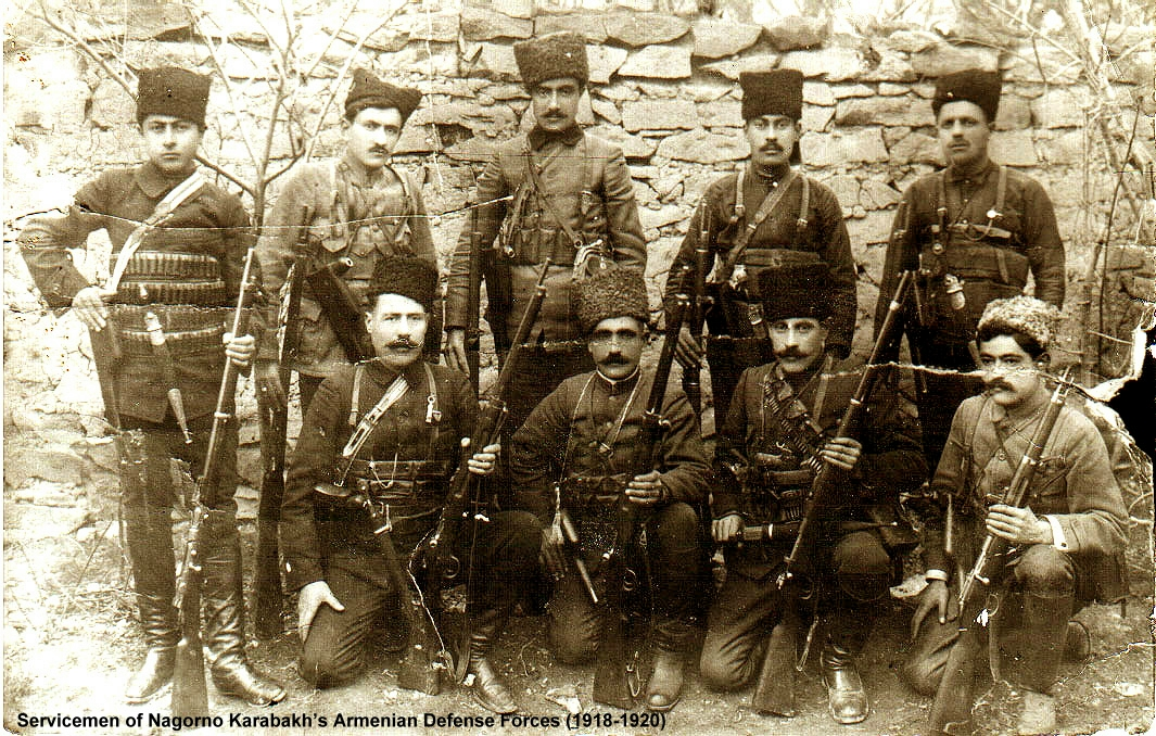 Servicemen of Nagorno Karabakh’s Armenian Defense Forces (1918-1921). Armen forces of Nagorno Karabakh's Armenian National Council.